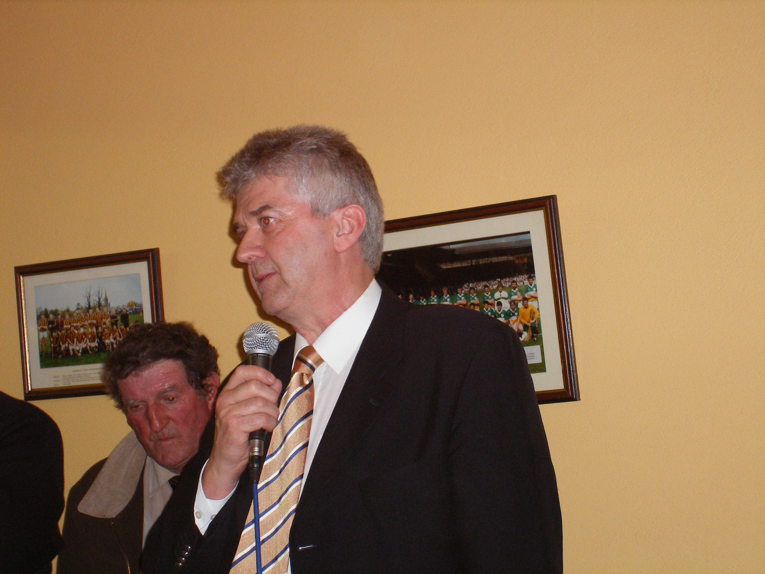 Professor Muiris O'Sullivan, UCD, speaking at launch of Seir Kieran GAA Club History (with Club Chairman Mick Murphy)